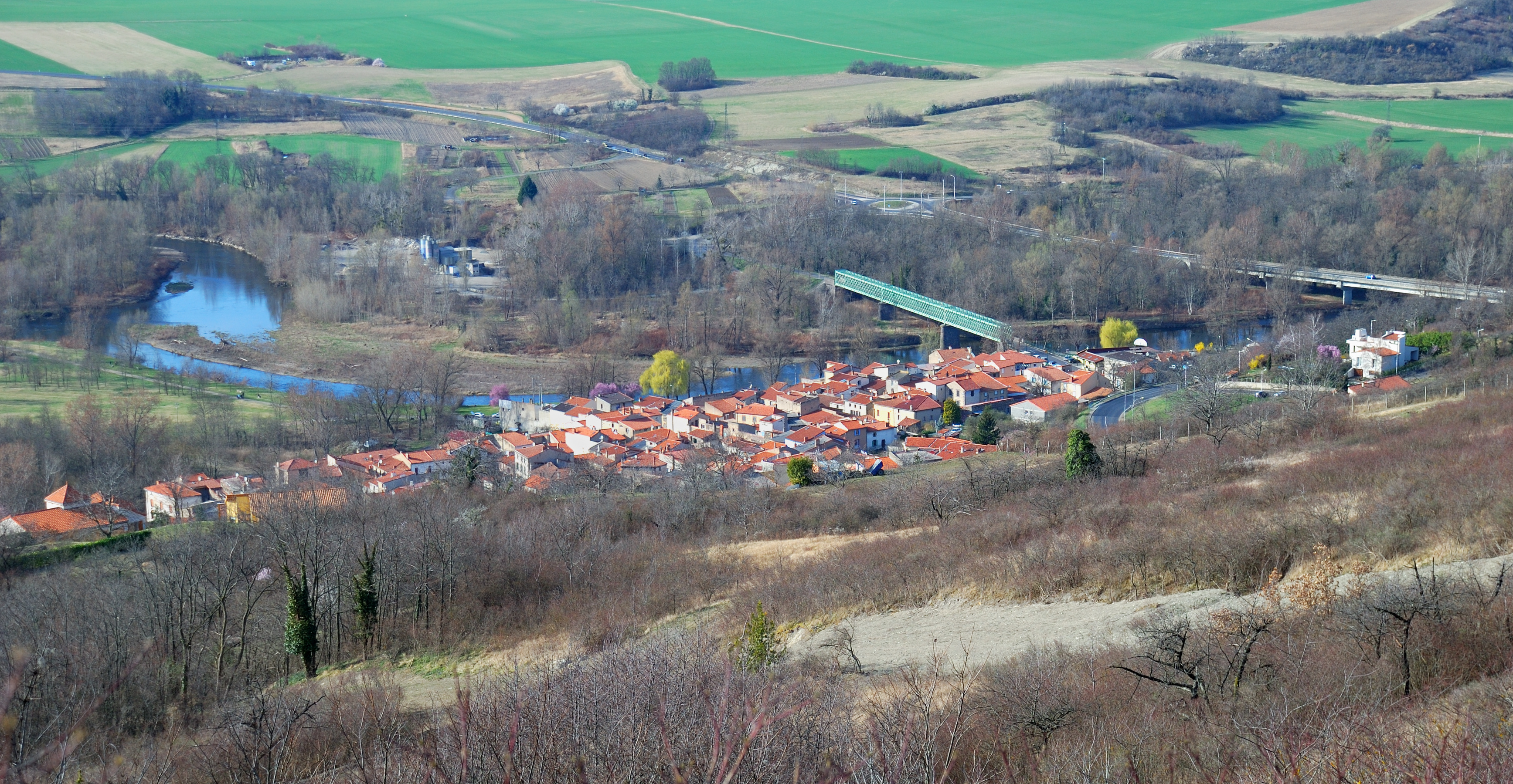 Dallet : general view from the Puy de Mur (Puy-de-Dôme, France).